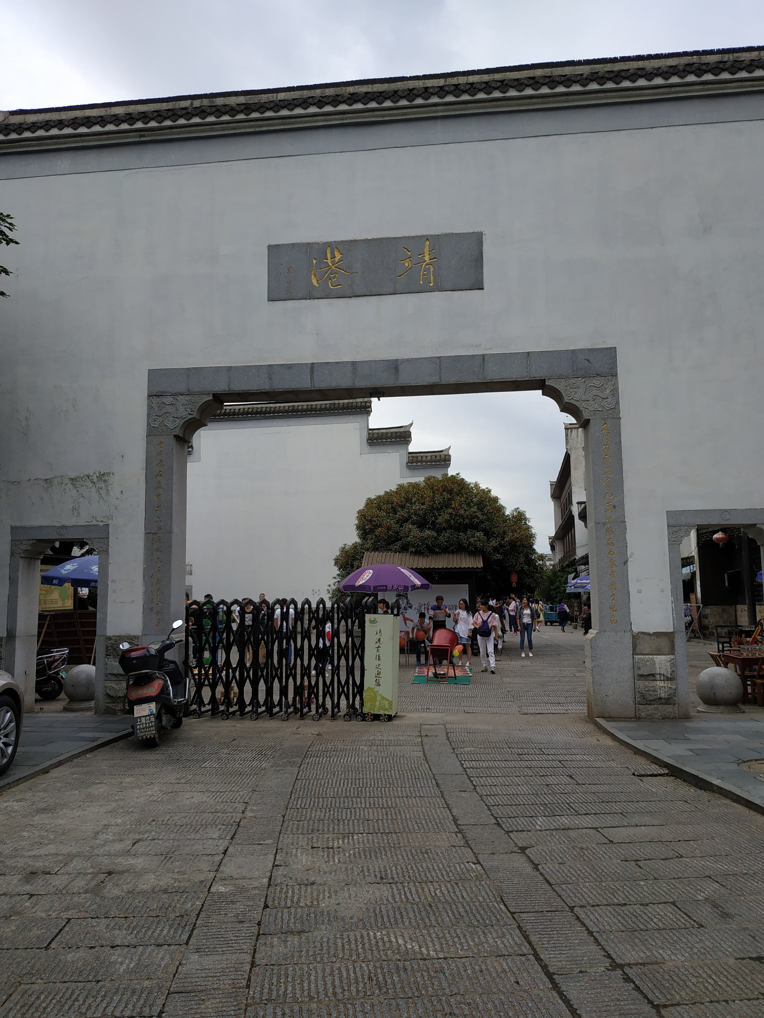 Street scene in Jinggang Ancient Town, Wangcheng District of Changsha, Hunan, China.